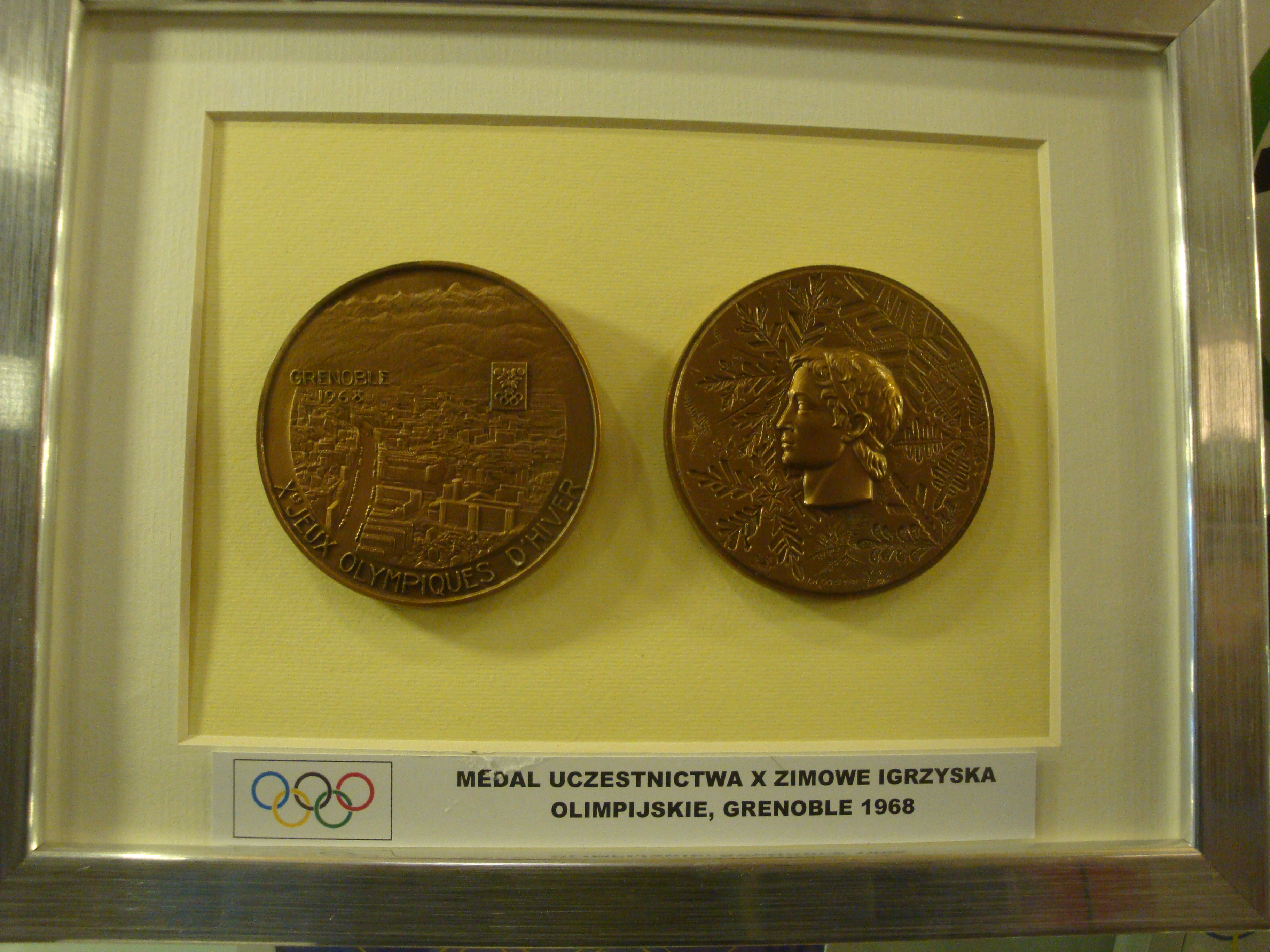 Medal for paticipant of Winter Olimpic Games 1968